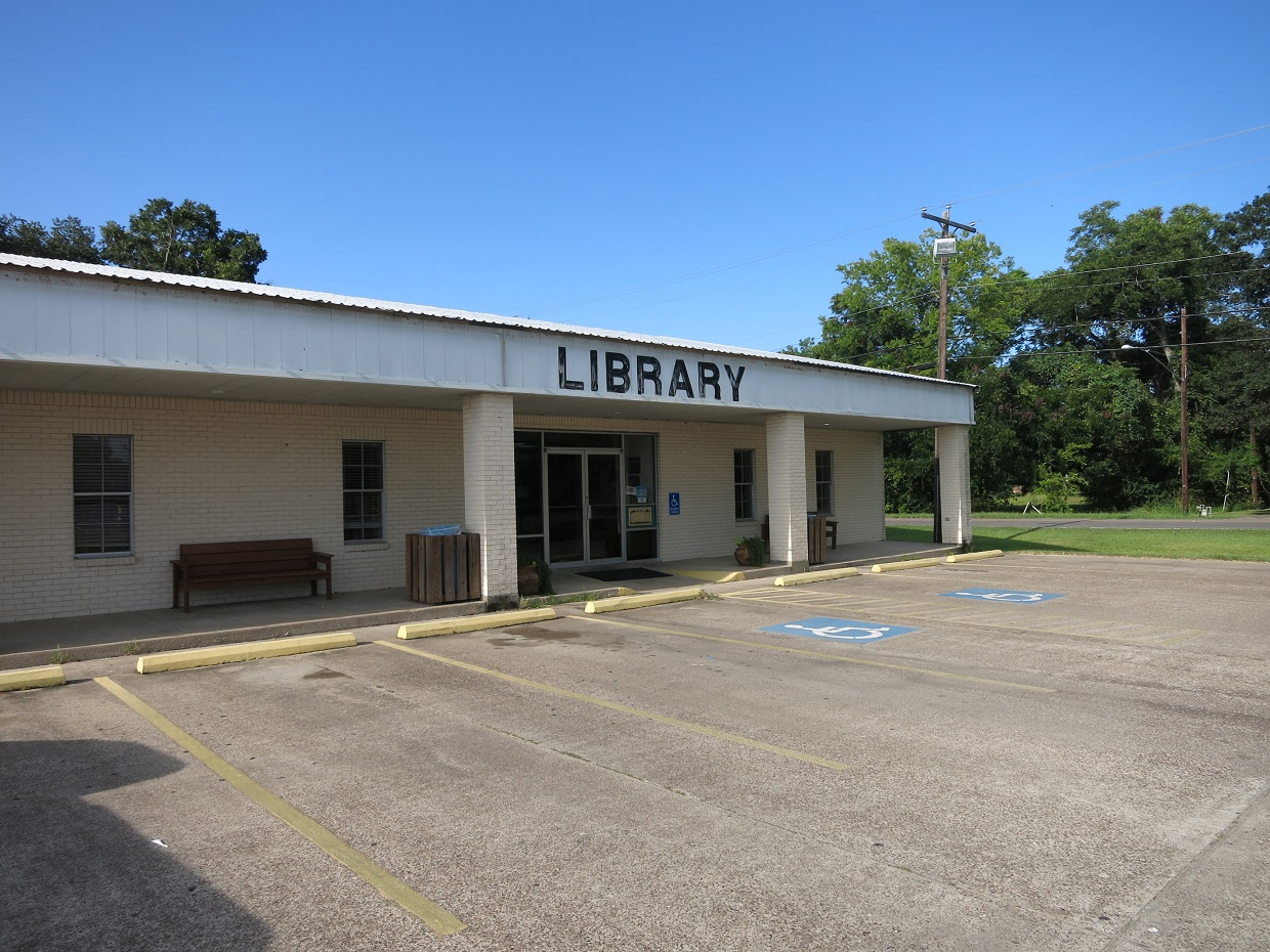 Photo shows the West Columbia public library at 518 E. Brazos Avenue, West Columbia, Texas 77486. View is toward the NE.